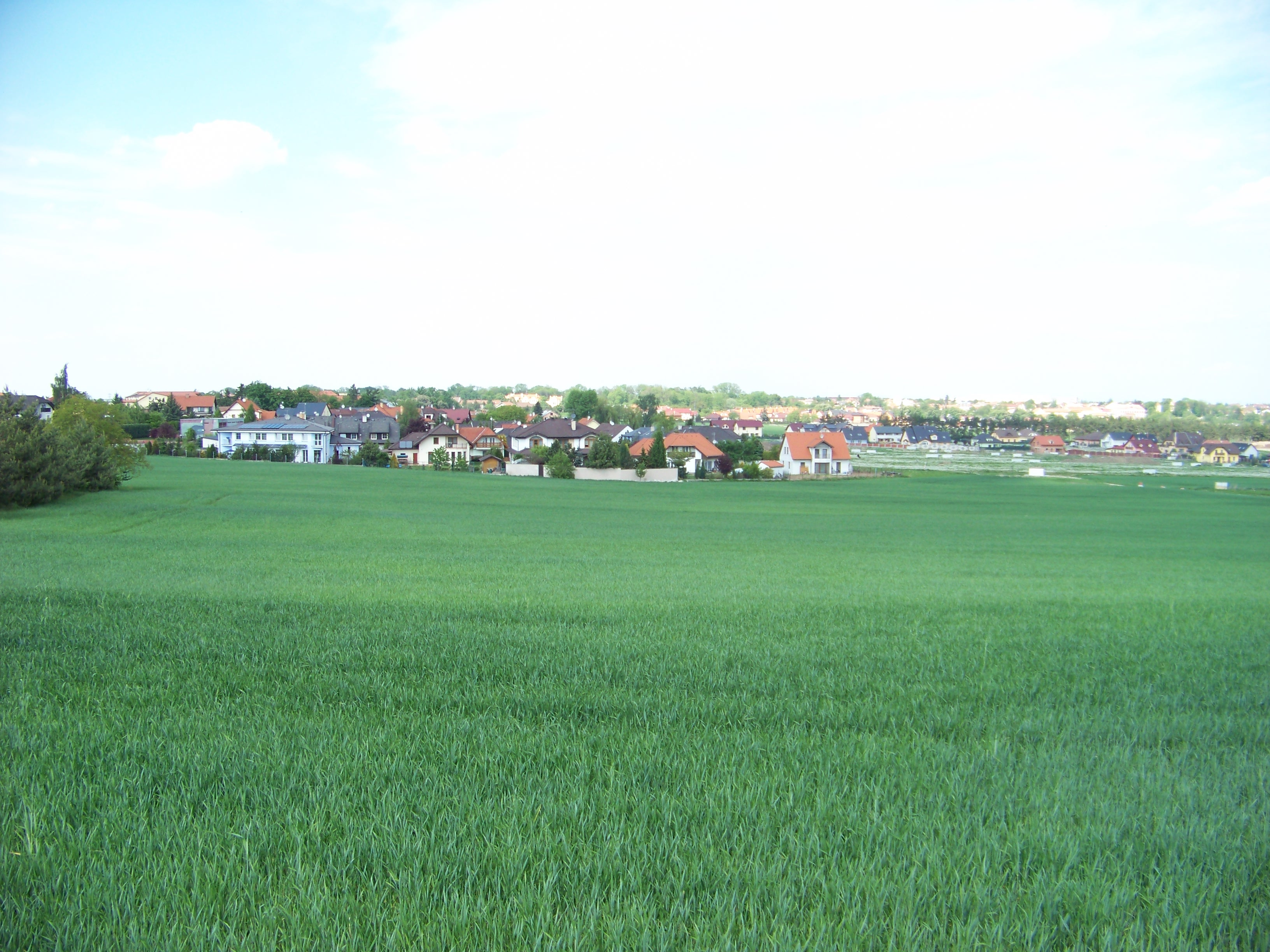 Šestajovice, Prague-East District, Central Bohemian Region, the Czech Republic. A view from Tyršova street.